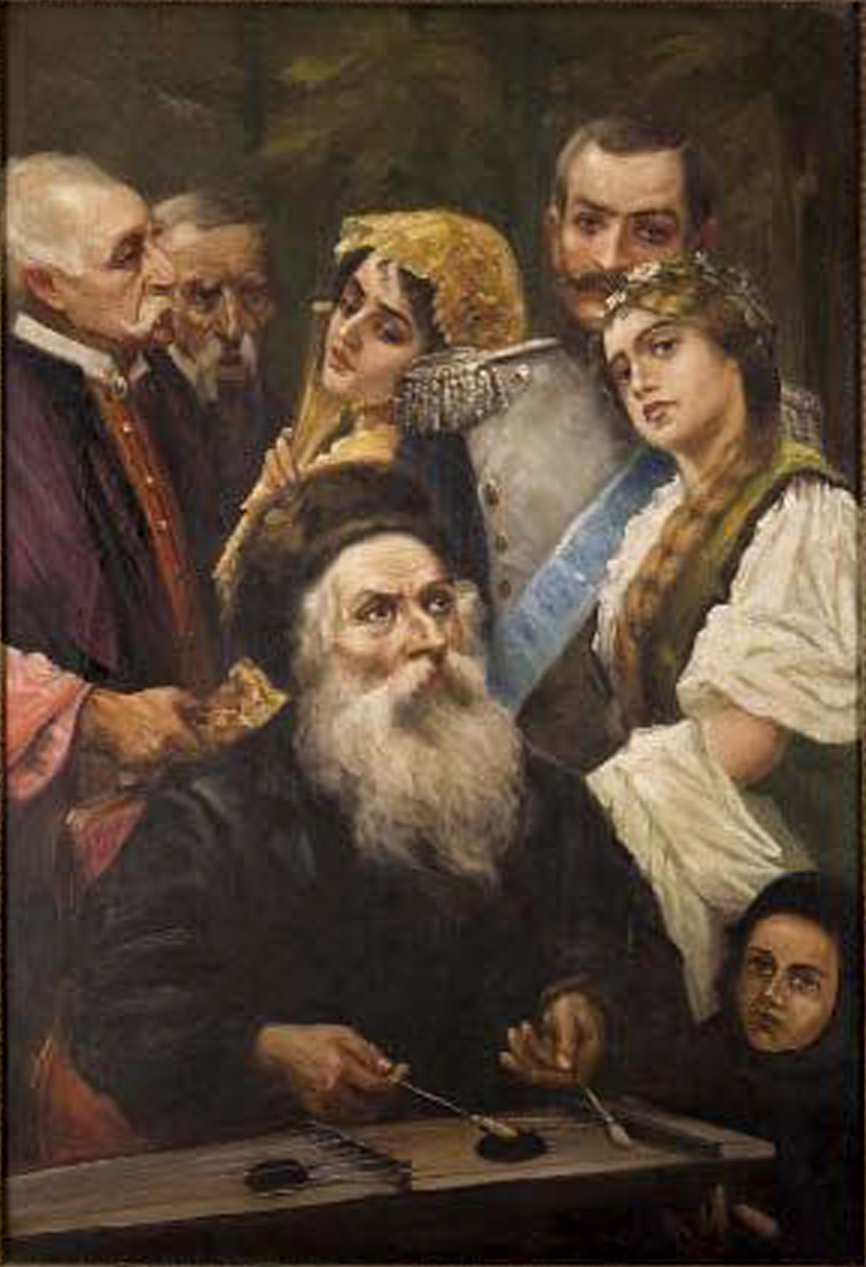 Maurycy Trębacz (1861-1941), Concert by Jankiel, oil on canvas, 112 x 76 cm